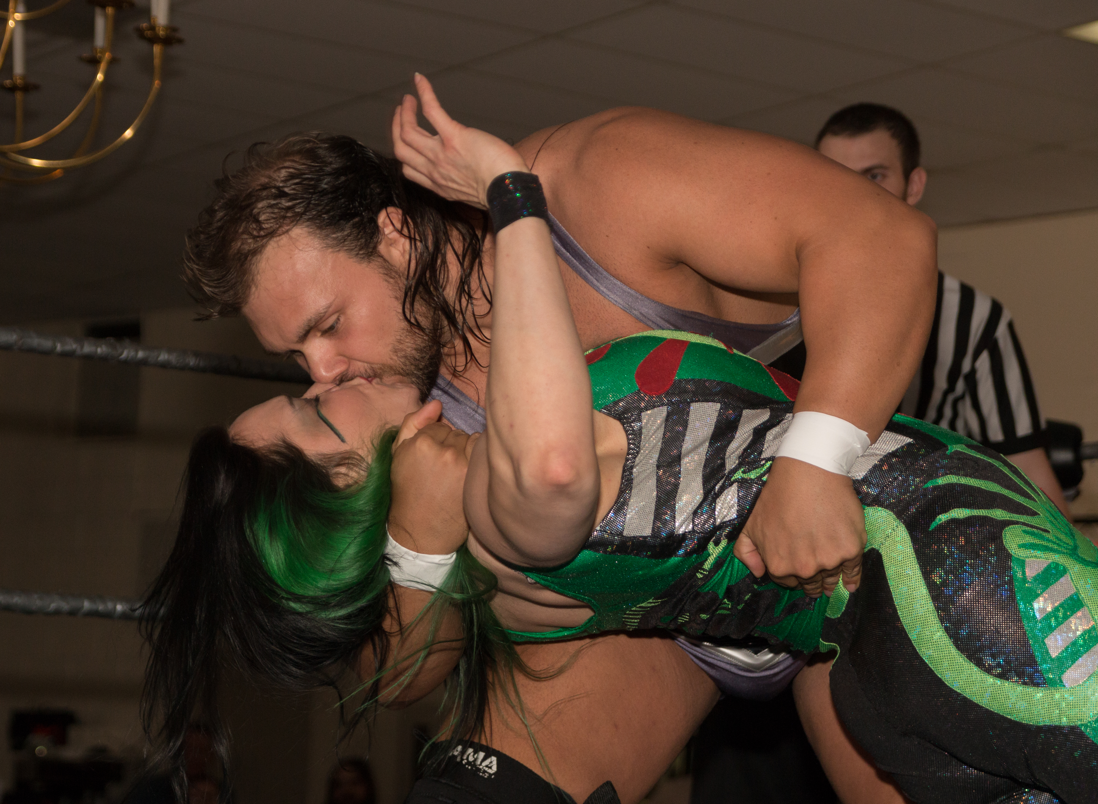 Wrestlers Michael Elgin & MsChif making her entrance at Alpha-1 Wrestling's Immortal Kombat 2 show in Hamilton, ON